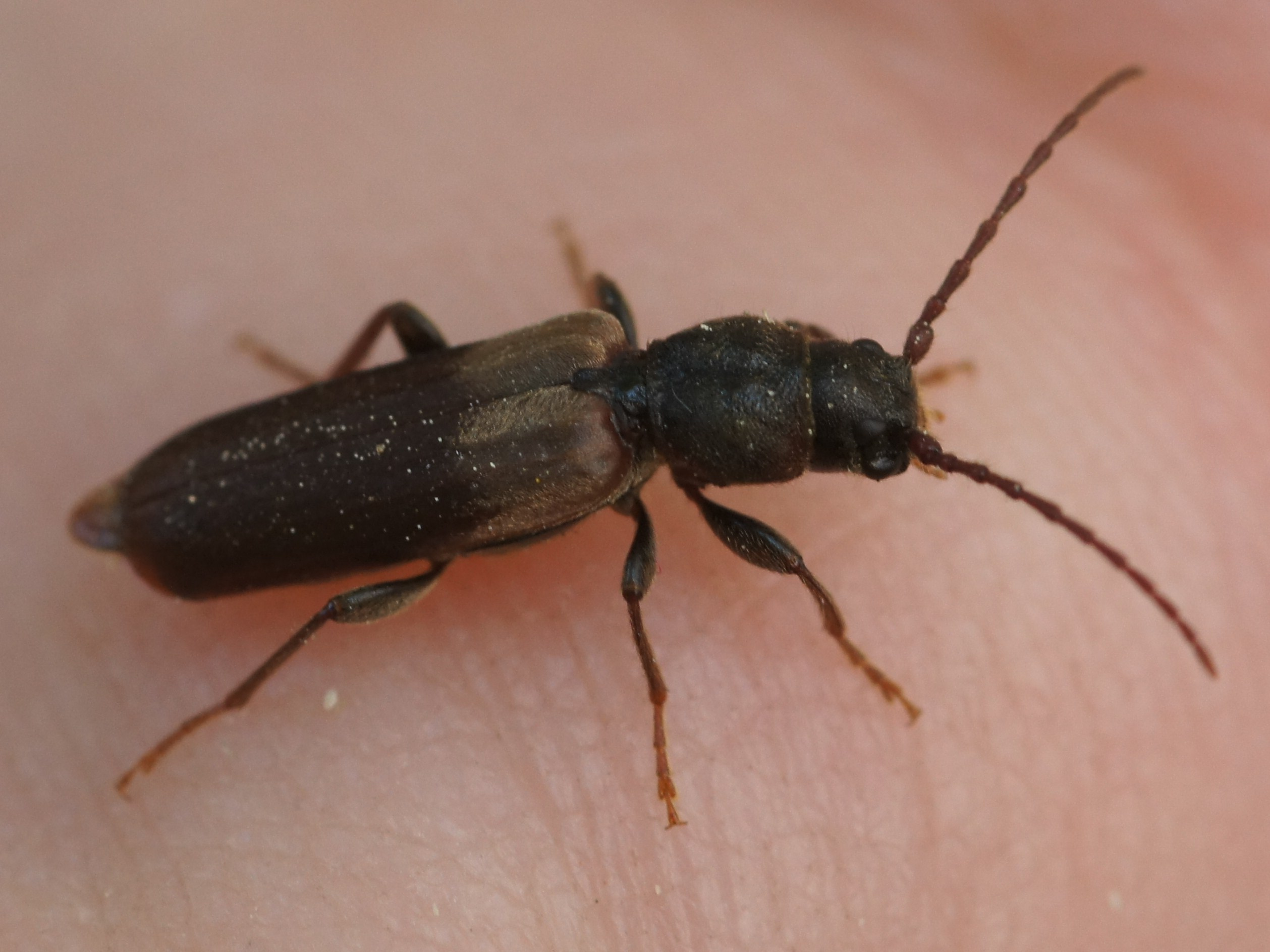 Tetropium fuscum. Picture taken in Skåne, Sweden.